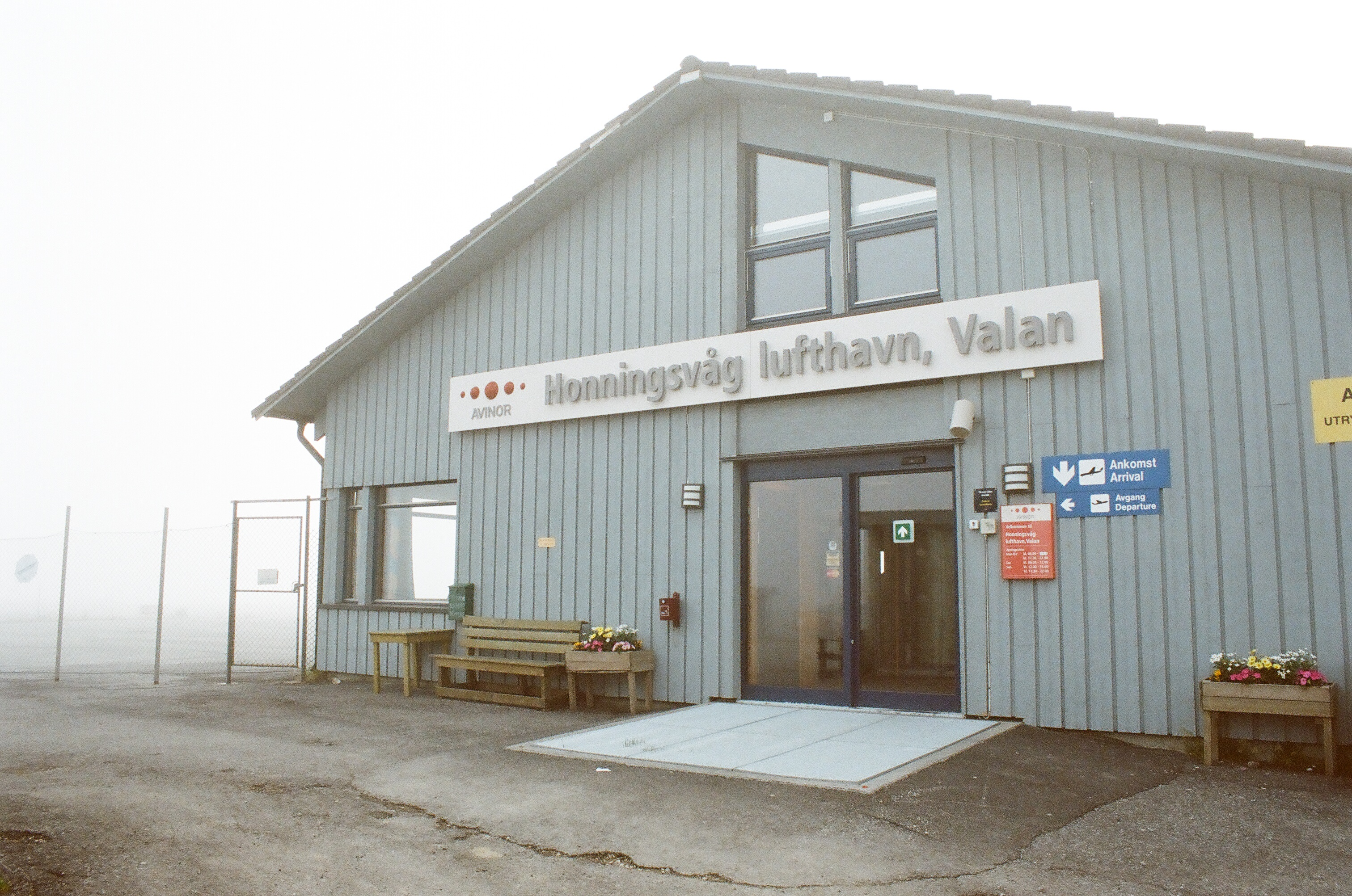 Terminal of Honningsvår Airport, Valan in Norway